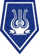 Orkiestry policyjne (do 1995, ale nieoficjalnie cały czas w użyciu) Police bands (officially abolished in 1995 but still worn)